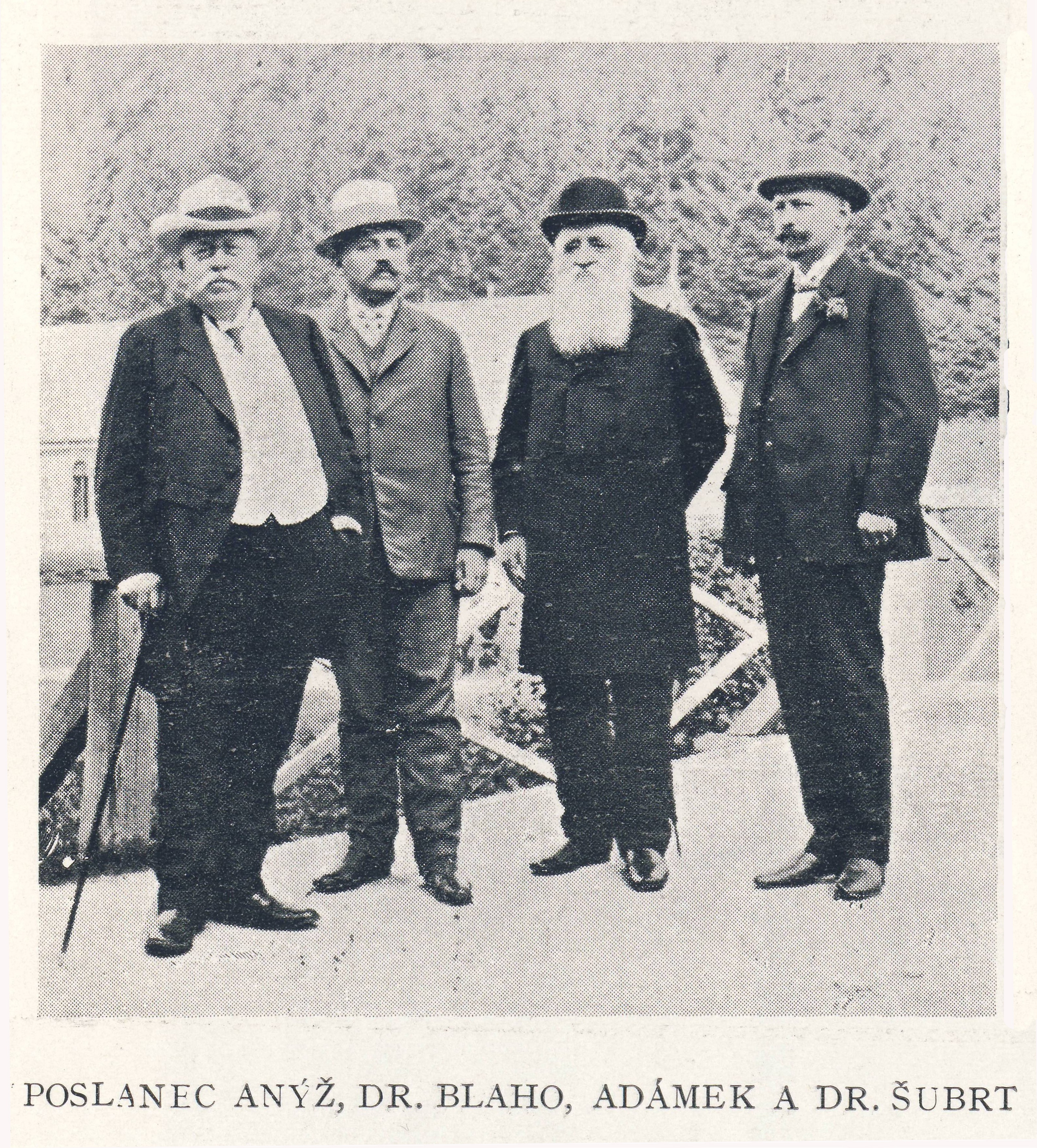 Poslanci Josef Anýž, Pavel Blaho, Karel Adámek a Eduard Šubrt v Luhačovicích 1911